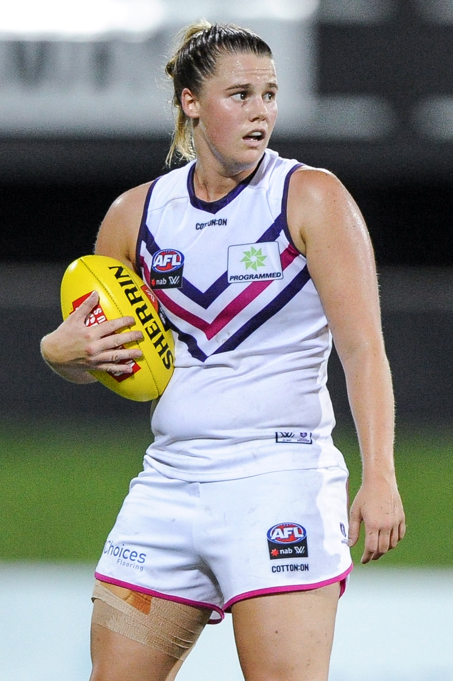 Stacey Barr in the AFL Women's preseason match between the Adelaide Football Club and Fremantle Football Club on 20 January 2018 at TIO Stadium.